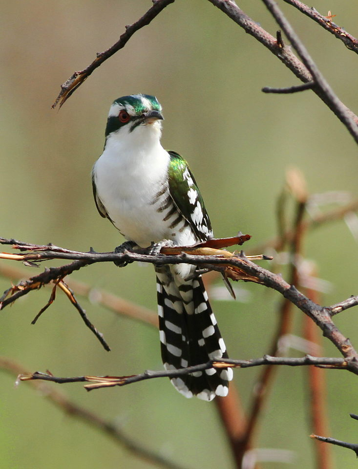 Diederik cuckoo, Chrysococcyx caprius, at Pilanesberg National Park, South Africa